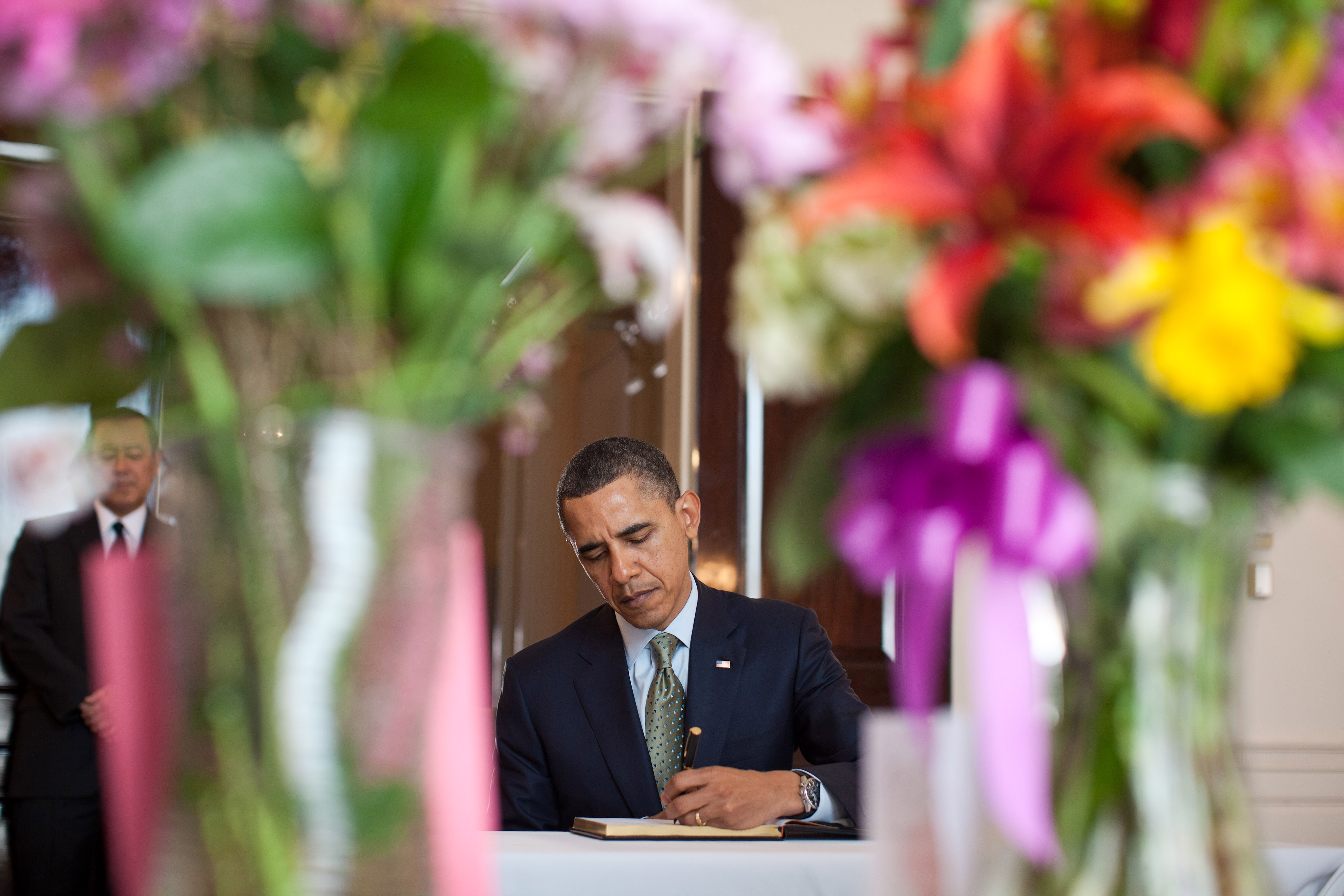 Barack Obama, President, visited the Embassy of Japan in Washington, D.C., to sign a book of condolence for the victims of the recent tsunami and earthquakes that have impacted the country on March 17, 2011. Obama met with Ichirō Fujisaki, Ambassador to the United States.